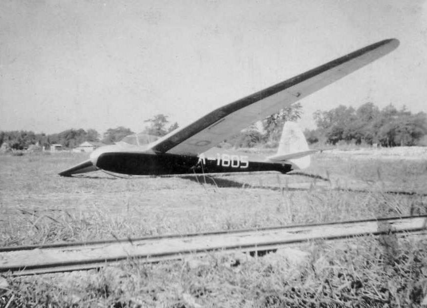 A-1605 Glider gull wing The first Maeda 703. The first of two gull-winged versions. Ref:Simons, Sailplanes 1920-1945.